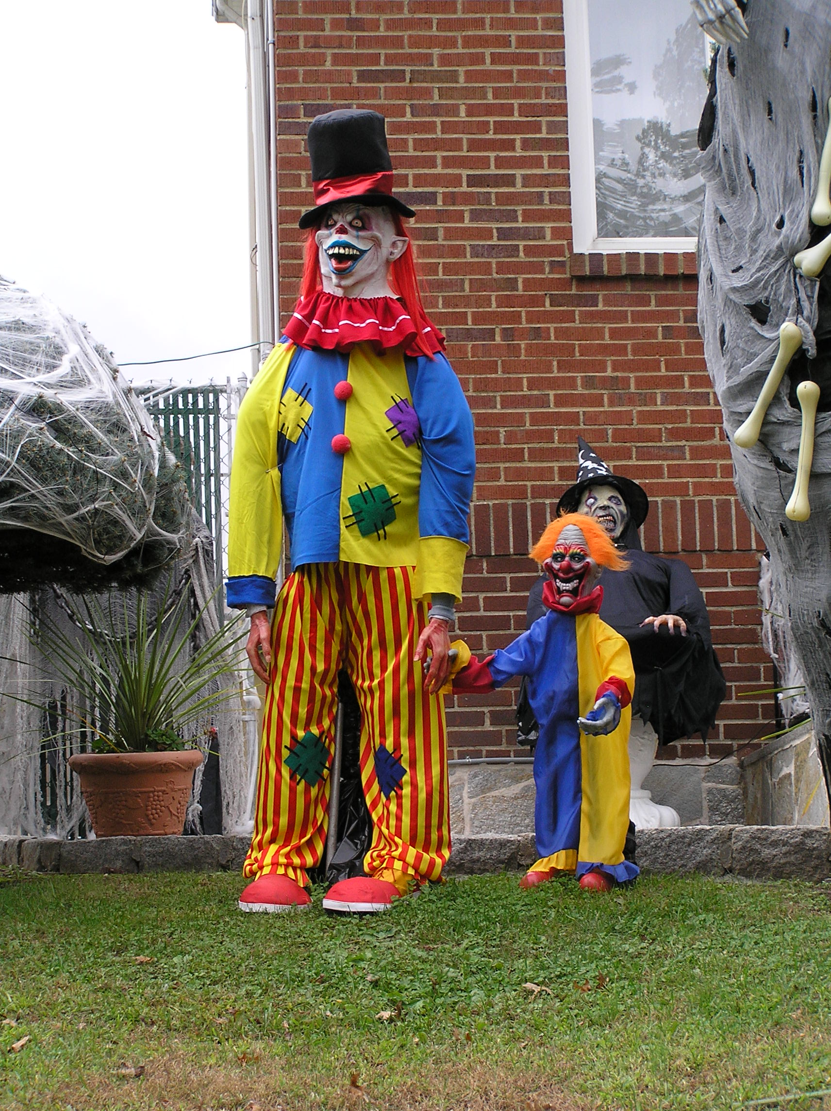 A colorful Halloween costume